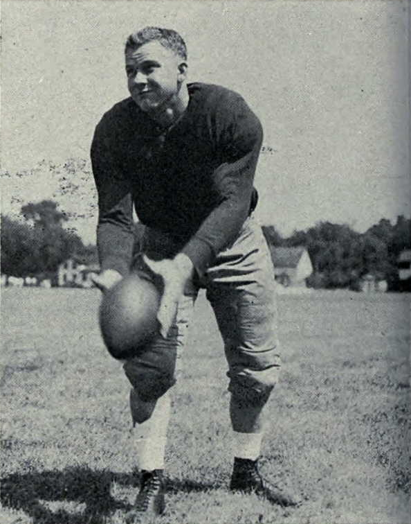 Photograph of Jack Wink